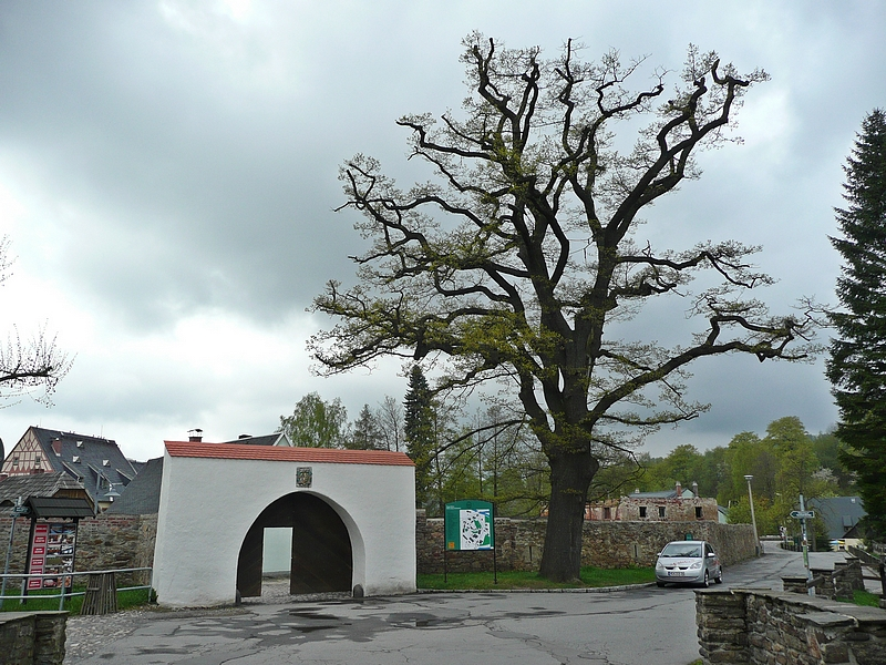 Olbernhau-Grünthal, entrance of the historic copperworks.